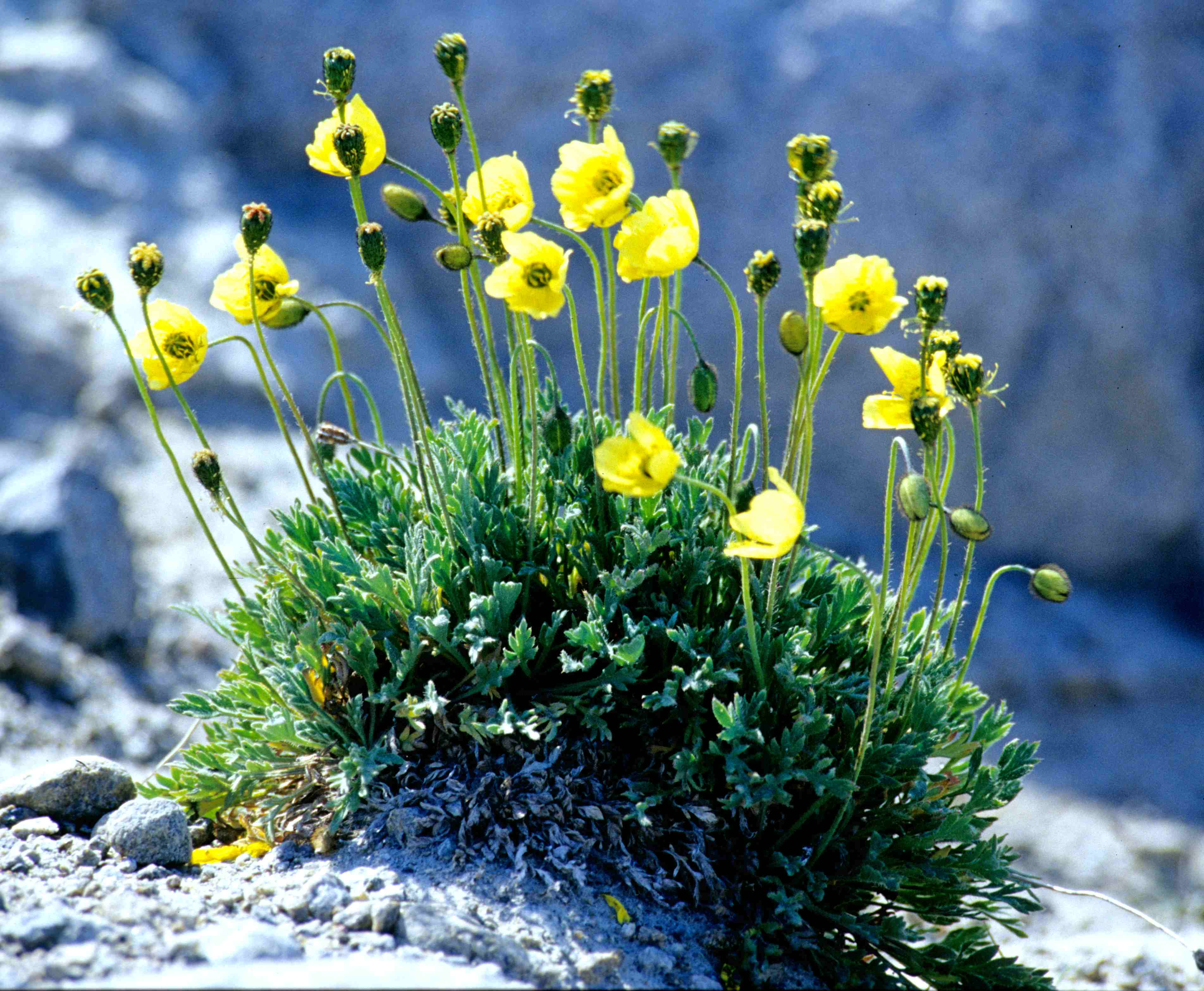 Arktischer Mohn (Arctic Poppy; Papaver radicatum) near Pangnirtung Fiord